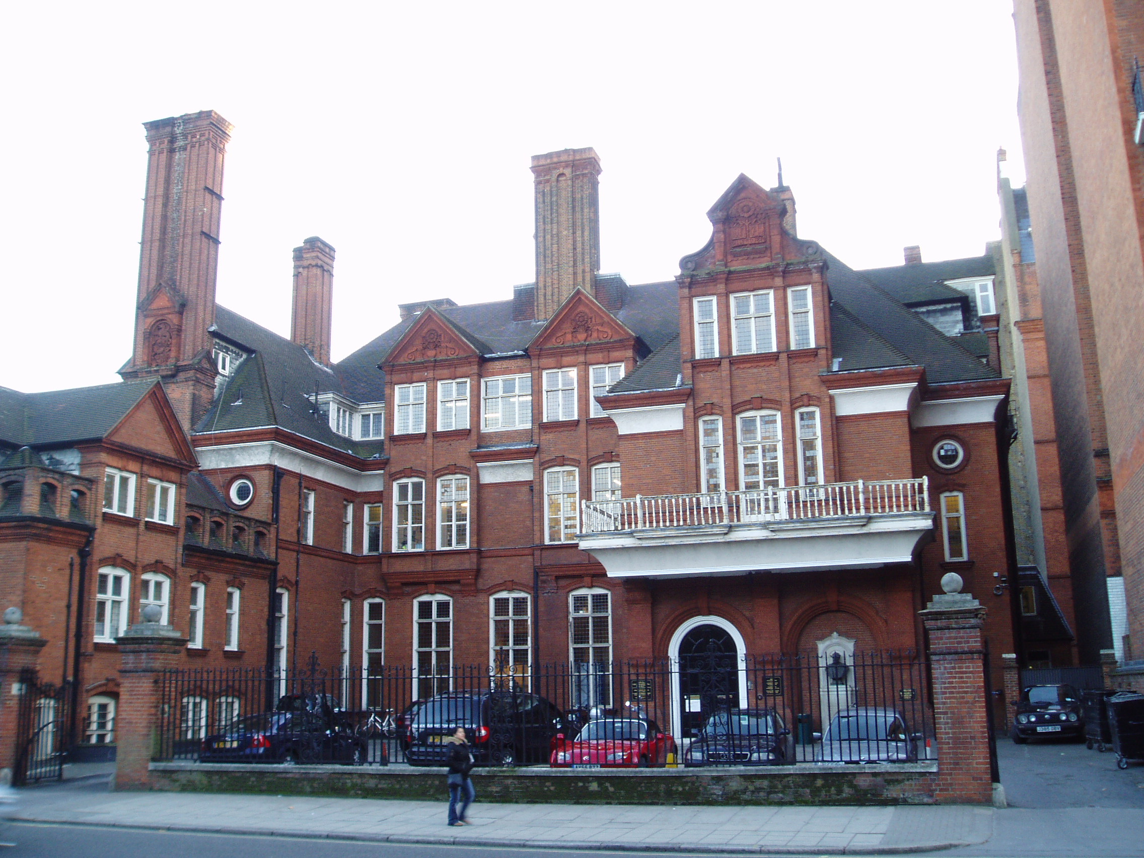 Lowther Lodge, Kensington Gore, London, England. Headquarters of the Royal Geographical Society. Designed by Richard Norman Shaw, built 1873-5